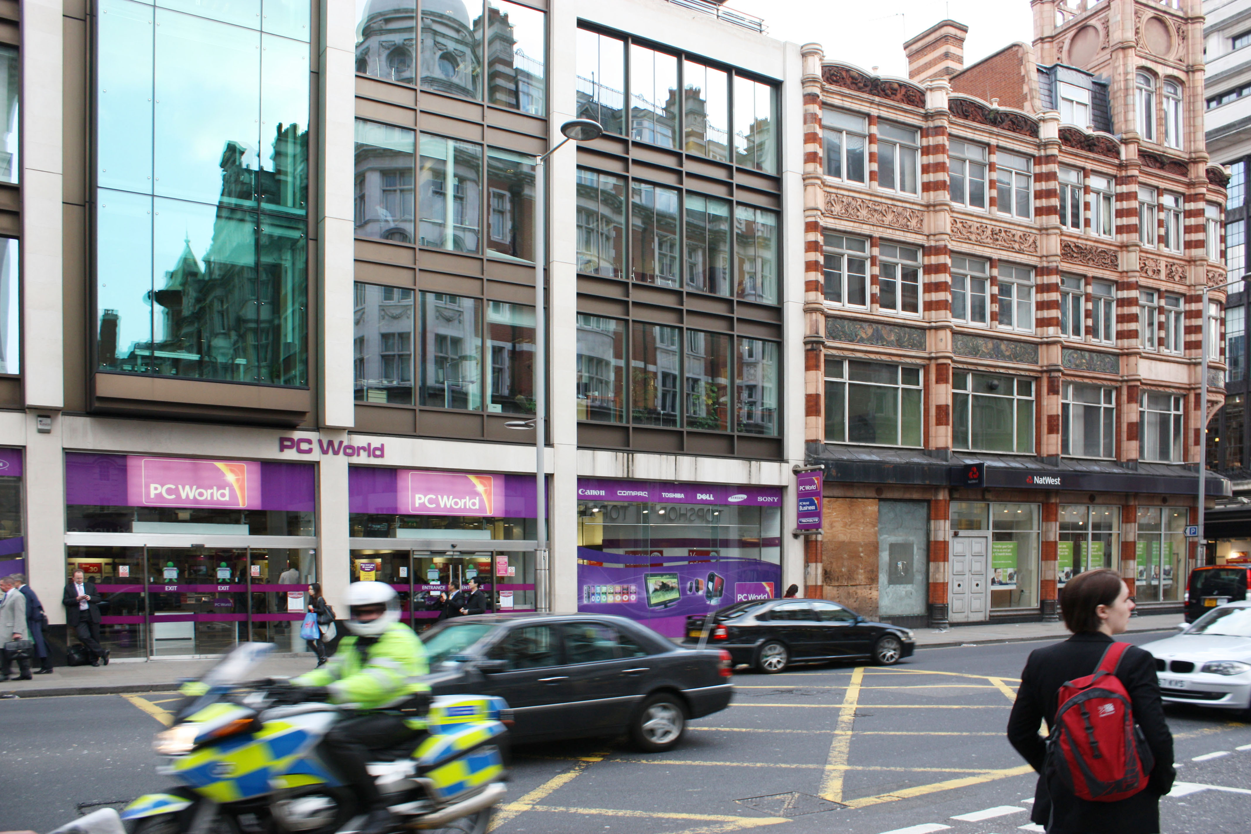 PC World, Kensington High Street, London.